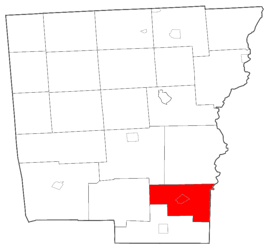 Map of Chenango County highlighting Bainbridge